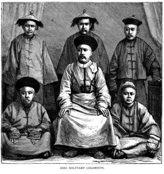 "Sibo military colonists" (i.e. Xibe people). Picture drawn south of Yining, in today's Qapqal Xibe Autonomous County)